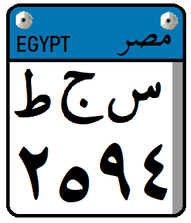 Egypt - License Plate - Motorcycle